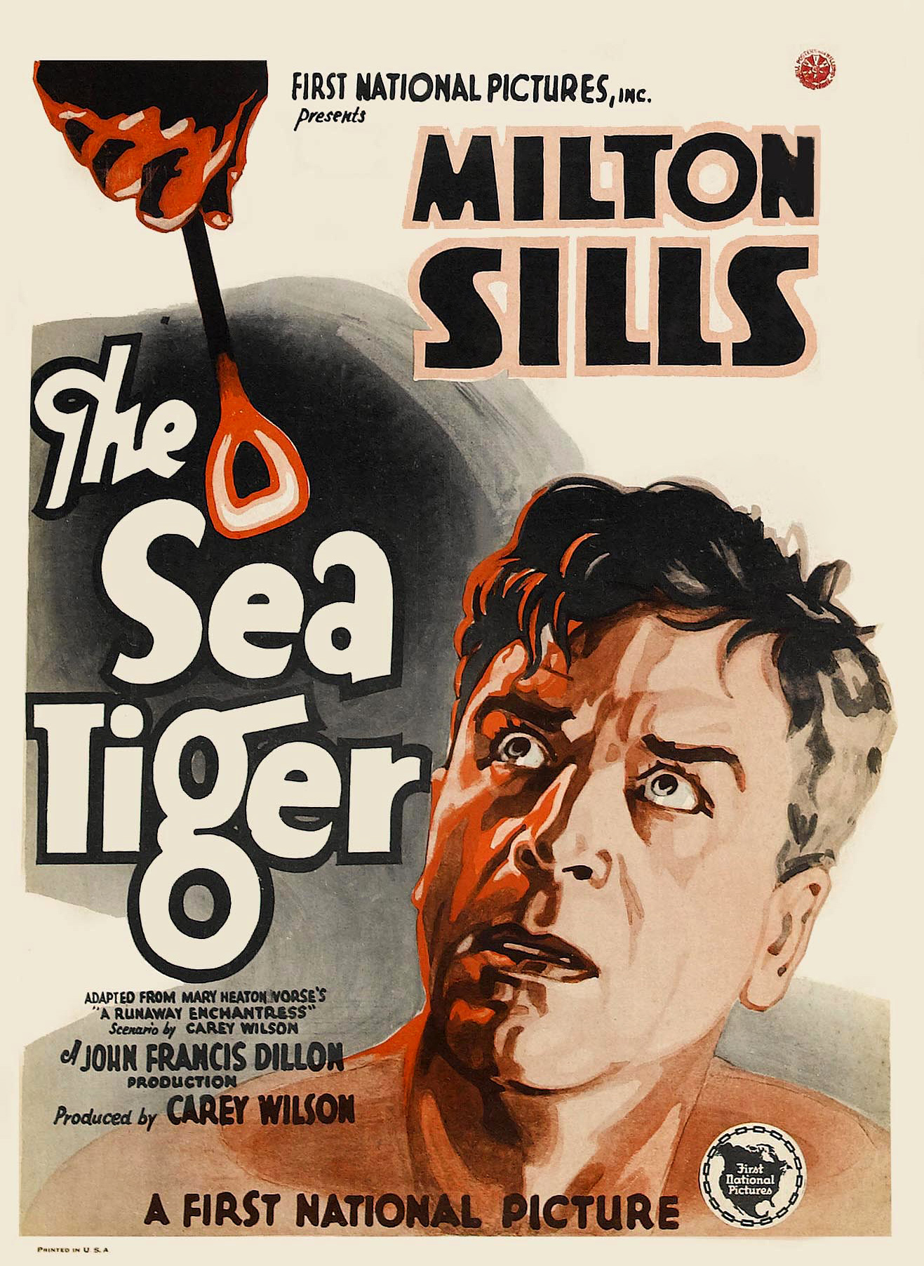 Poster for the 1927 film The Sea Tiger. There are no copyright marks on this poster. At bottom left is Printed in USA. The red mark at upper right appears to be some type of printers' mark or logo. It's also seen on this window card